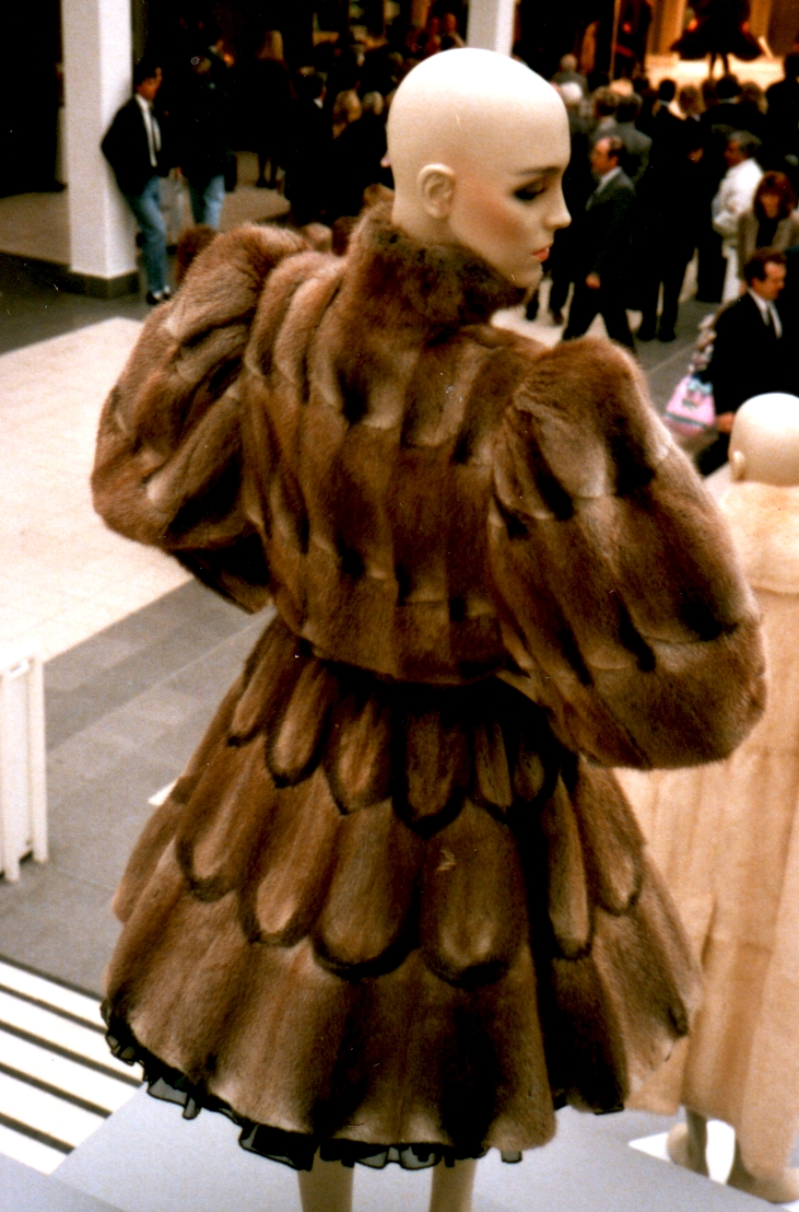 Musquash (musk rat) fur coat